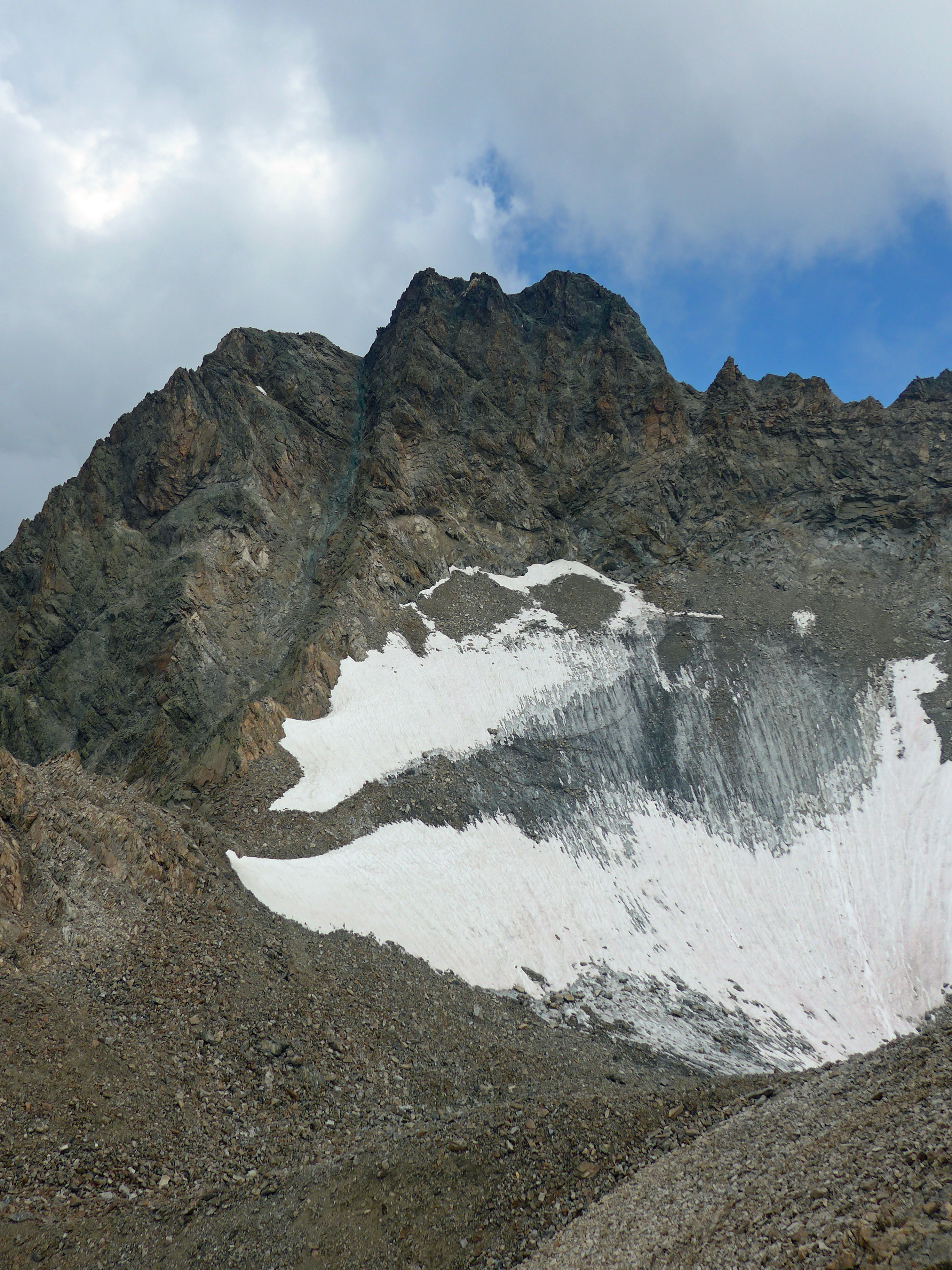 Rofelewand from south, from Totenkarköpfl